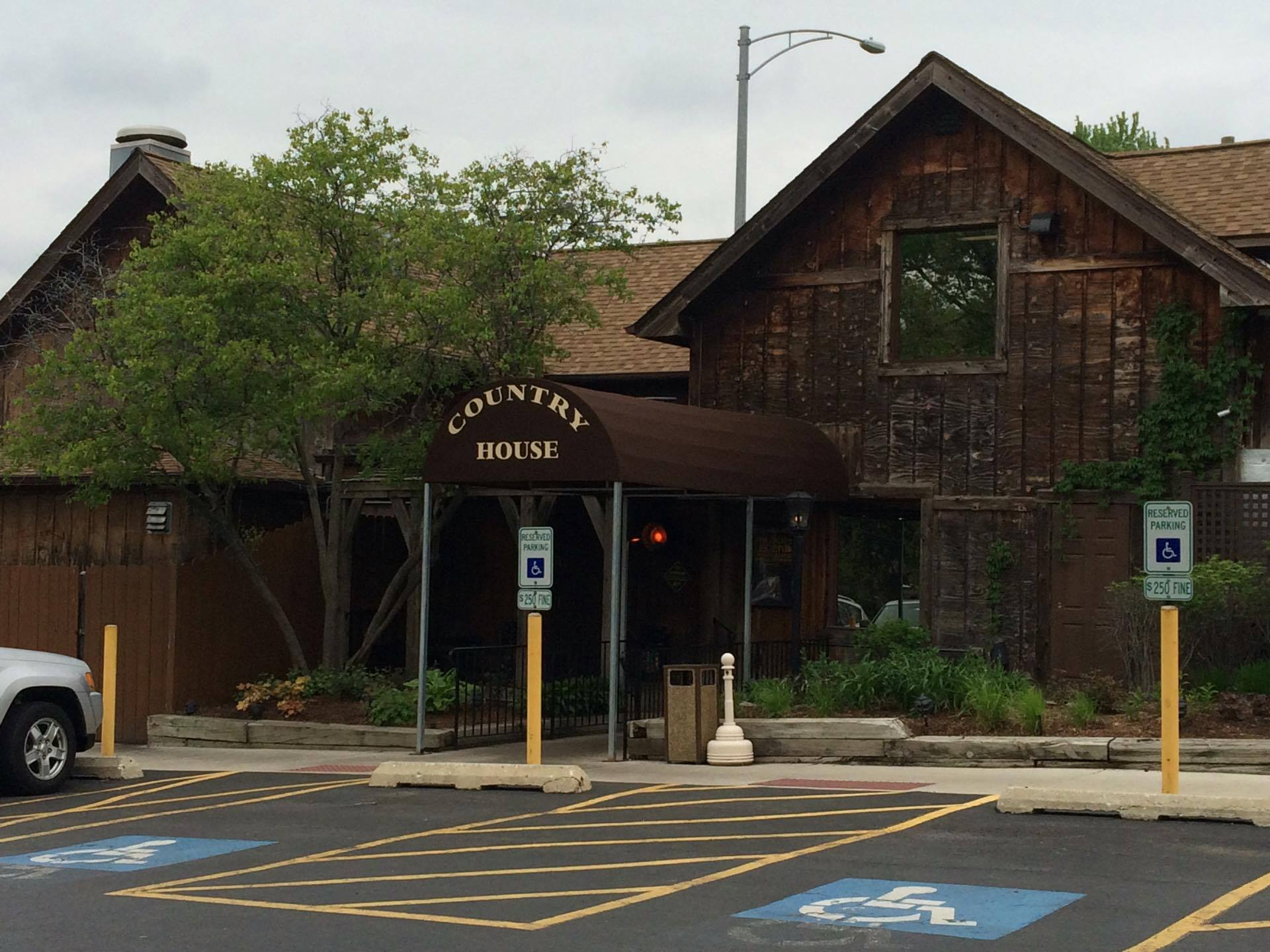 Front entrance for Country House